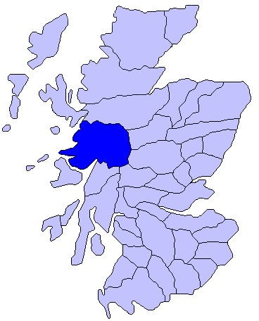 Map showing roughly the historic district of Lochaber in Scotland.